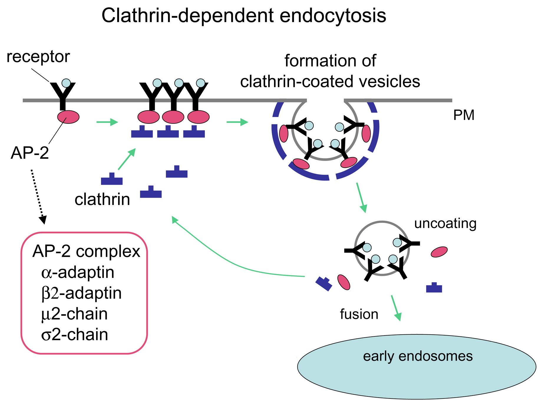 Mechanism of clathrin-dependent endocytosis. Clathrin and cargo molecules are assembled into clathrin-coated pits on the plasma membrane together with an adaptor complex called AP-2 that links clathrin with transmembrane receptors, concluding in the formation of mature clathrin-coated vesicles (CCVs). CCVs are then actively uncoated and transported to early/sorting endosomes.